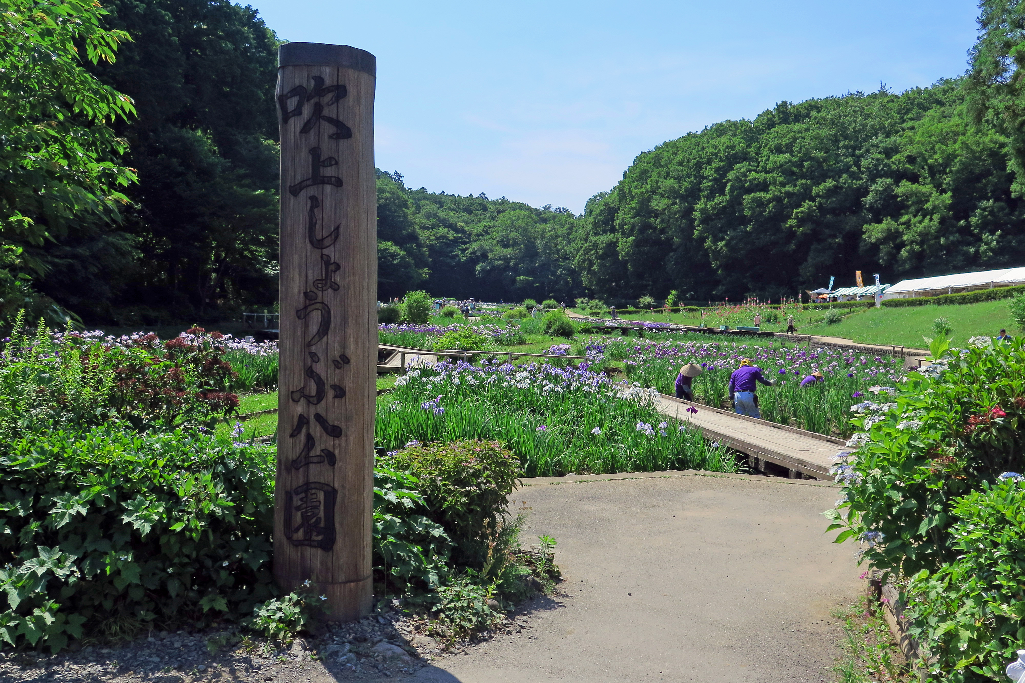 Entrance of Fukiage Iris Park Ome city, Tokyo, Japan.